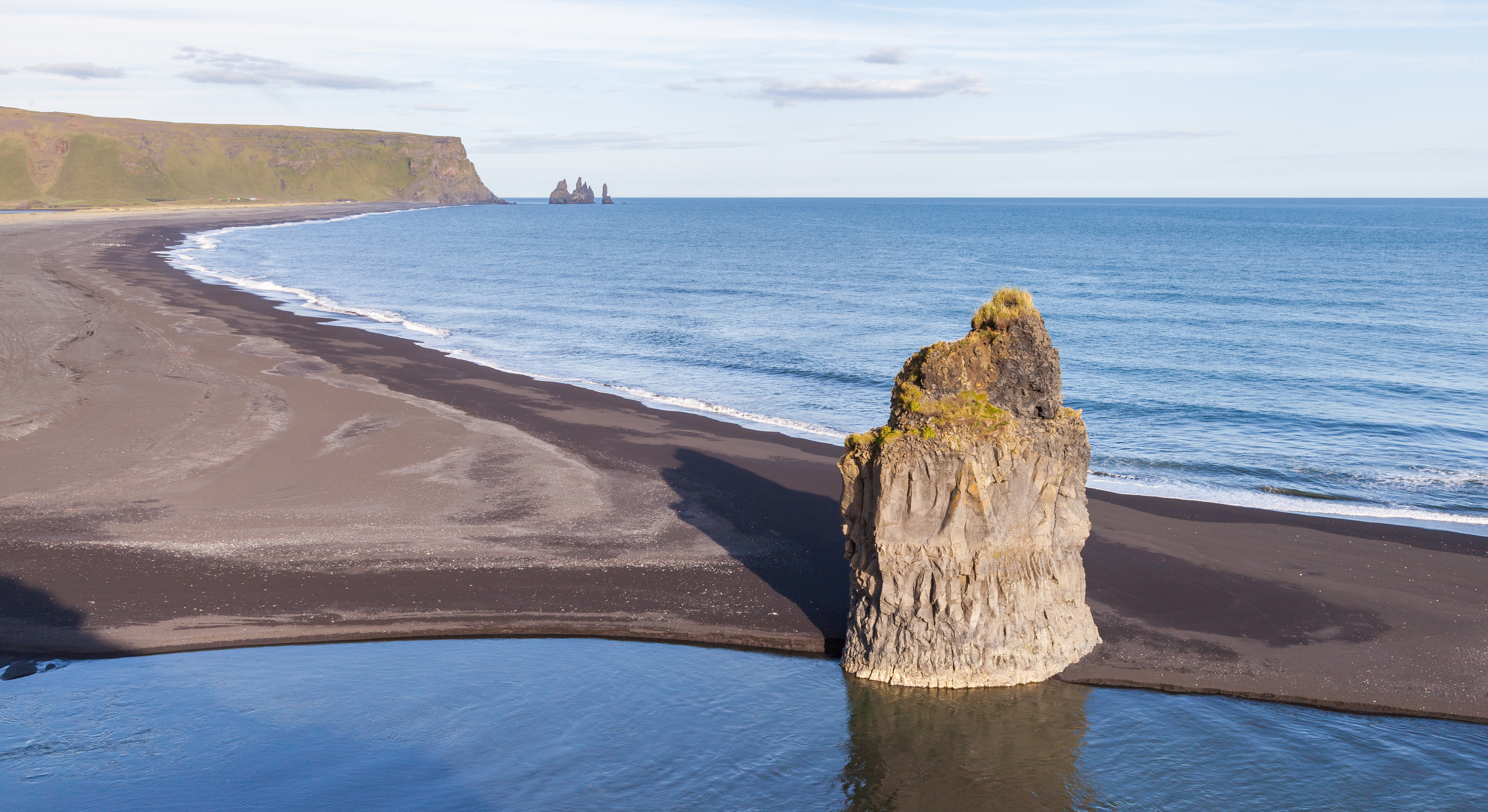 Basalt sea stack in a black lava beach under the mountain Reynisfjall near the village Vík í Mýrdal, southern Iceland. The three basalt see stacks in the background are the famous Reynisdrangar.